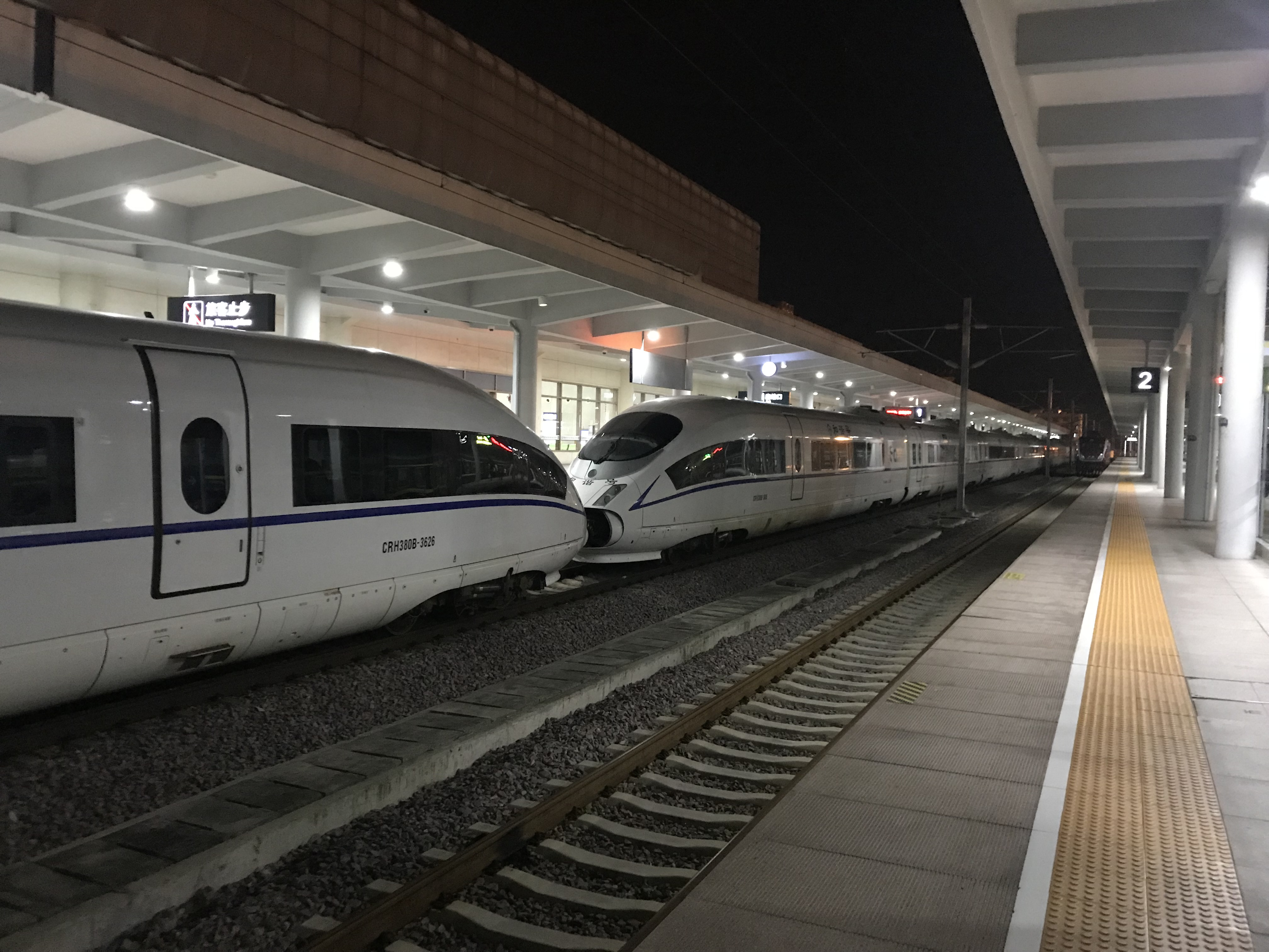 201906 CRH380B-3626-3605 as G1881 on Platform 1 of Jinhuanan Station